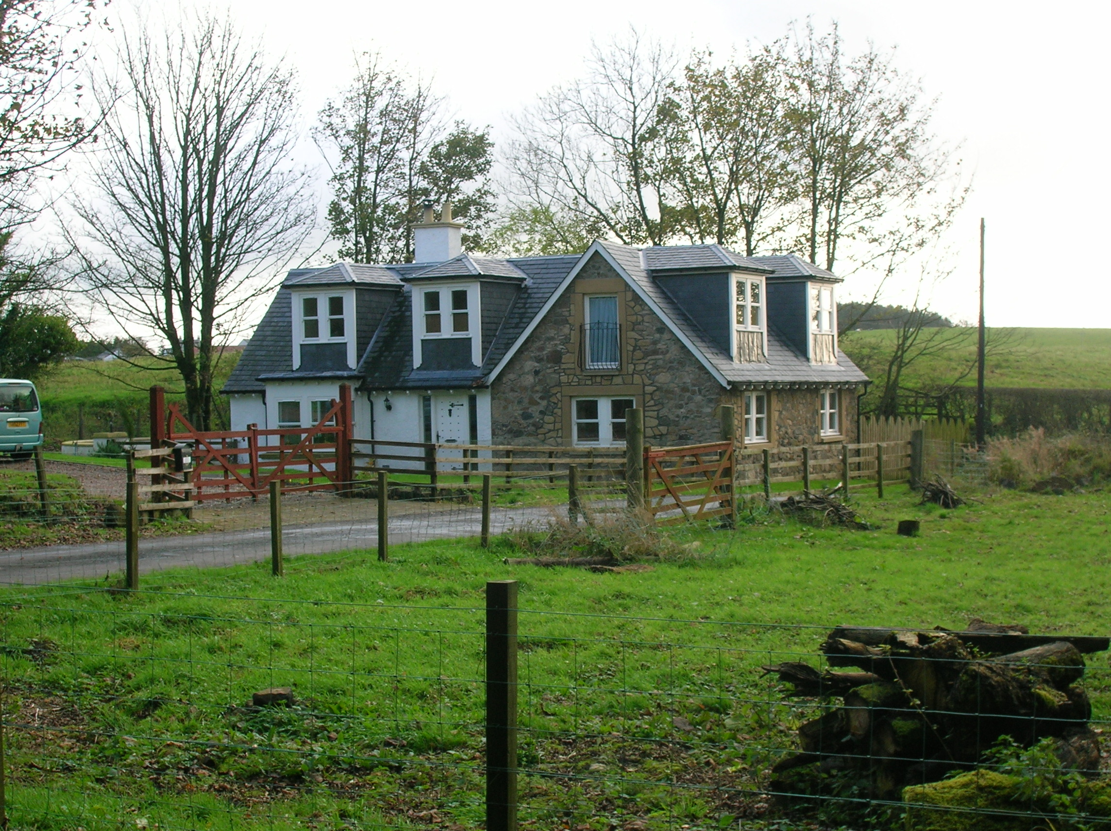 Angel Cottage, Crevoch by Kennox, North Ayrshire, Scotland. Roger Griffith 29-10-07